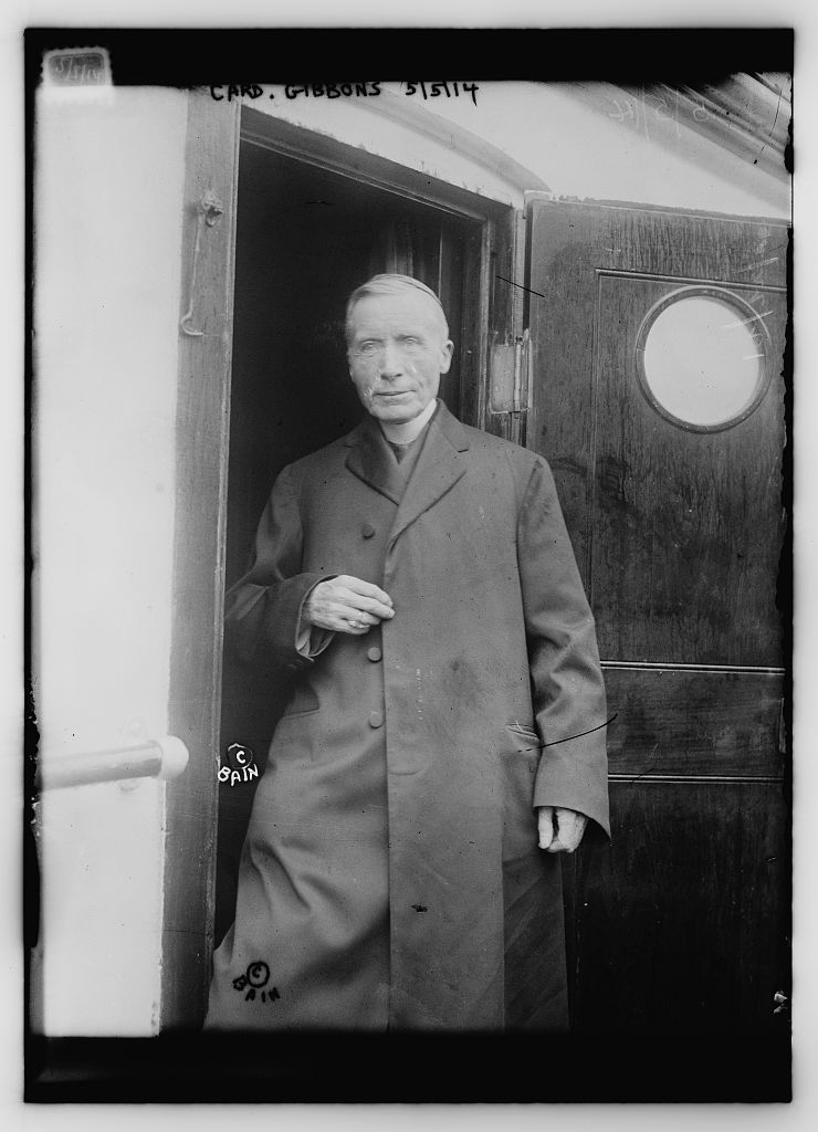 Bain News Service,, publisher. Cardinal James Gibbons on May 5, 1914 5/5/14 (date created or published later by Bain) 1 negative : glass ; 5 x 7 in. or smaller. Notes: Title from unverified data provided by the Bain News Service on the negatives or caption cards. Forms part of: George Grantham Bain Collection (Library of Congress). Format: Glass negatives. Repository: Library of Congress, Prints and Photographs Division, Washington, D.C. 20540 USA, General information about the Bain Collection is available at Persistent URL: Call Number: LC-B2- 3030-11